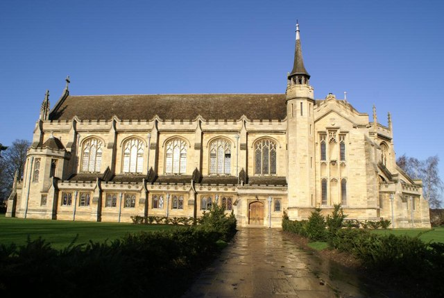 Oundle School Chapel